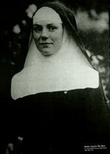 Élise Rivet (1890-1945), Mother Marie Élisabeth de l'Eucharistie, French nun, Righteous among the Nations